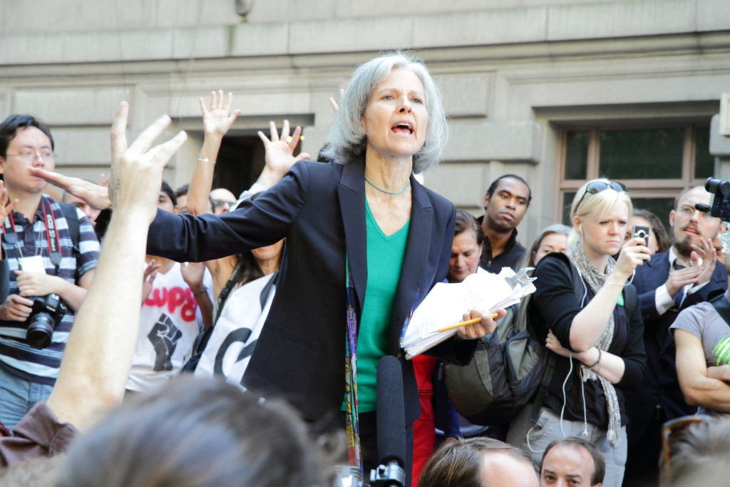 Jill Stein speaking at the Occupy Wall Street S17 demonstration on Bowling Green, Lower Manhattan, New York.